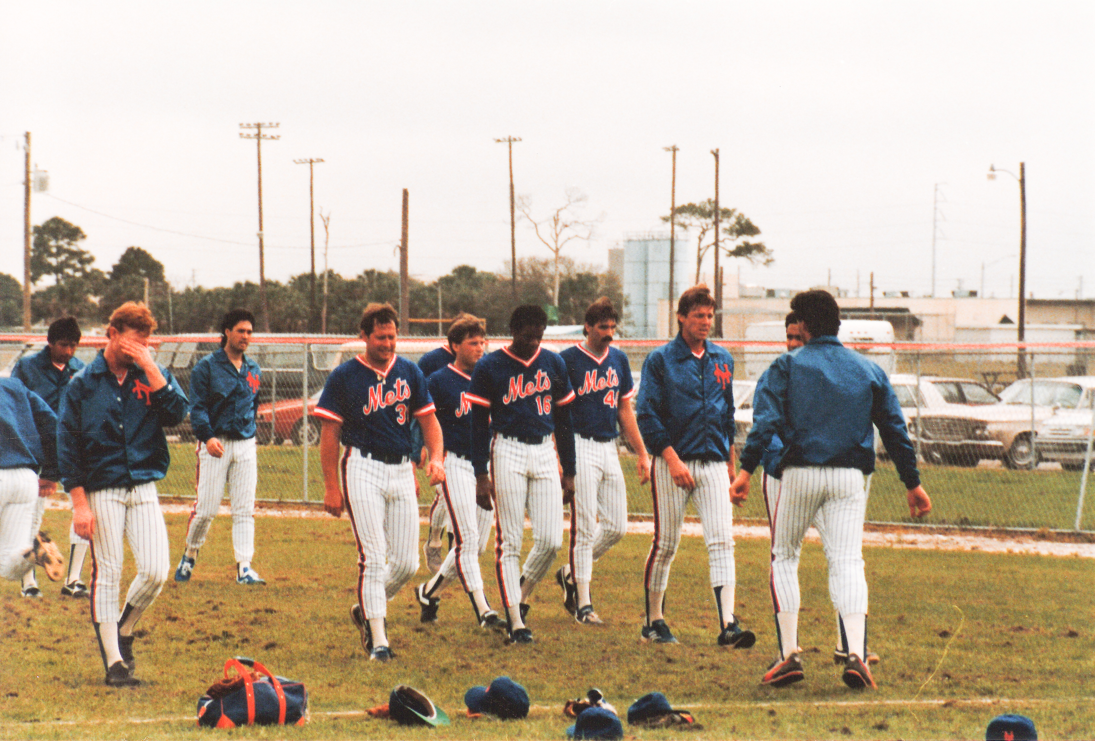 New York Mets Spring Training St. Petersburg, Florida February 1986